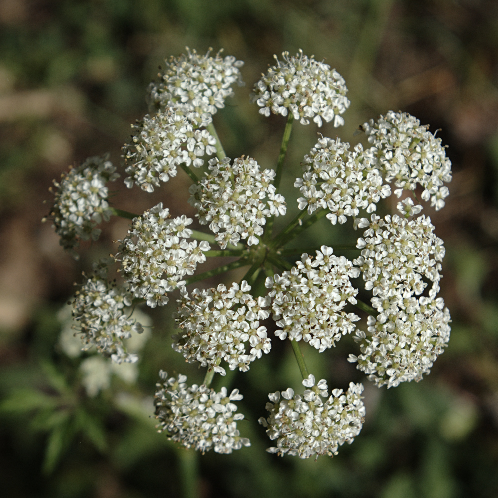 Inflorescence of Rocky Mountain Hemlock-Parsley, Conioselinum scopulorum, San Pedro Parks, Santa Fe National Forest, New Mexico.